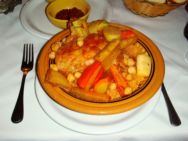 Tunisian couscous with chicken